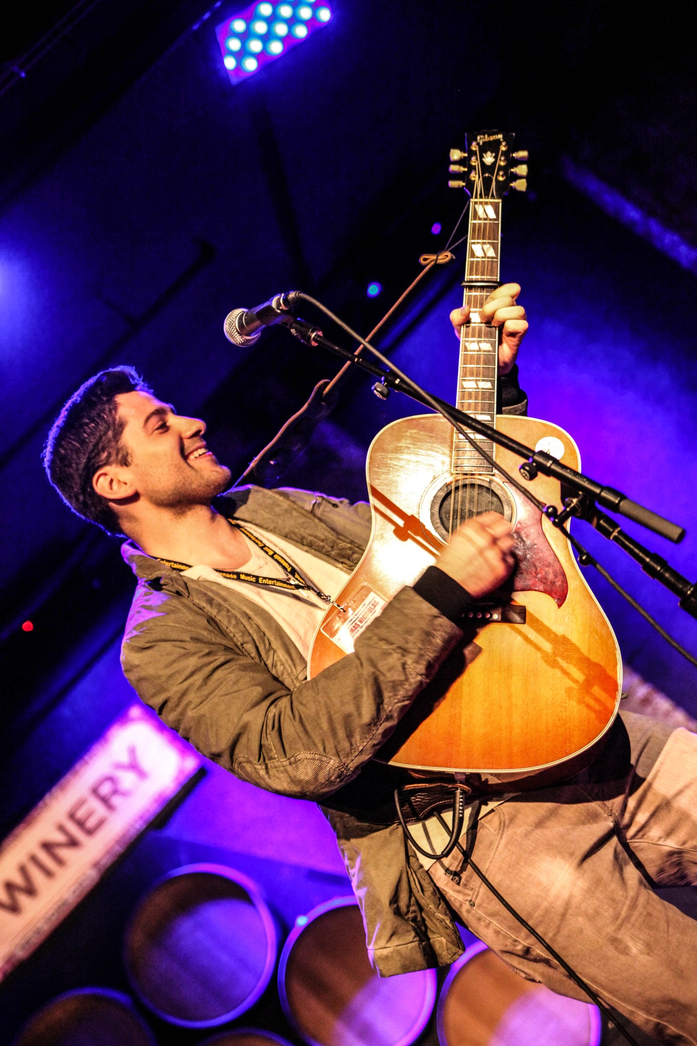 Photograph of Alex Babini.